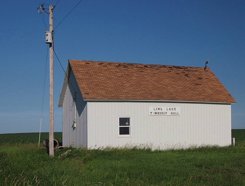 Lime Lake Township Hall, Lime Lake Township, Minnesota, USA. Viewed from the northwest.